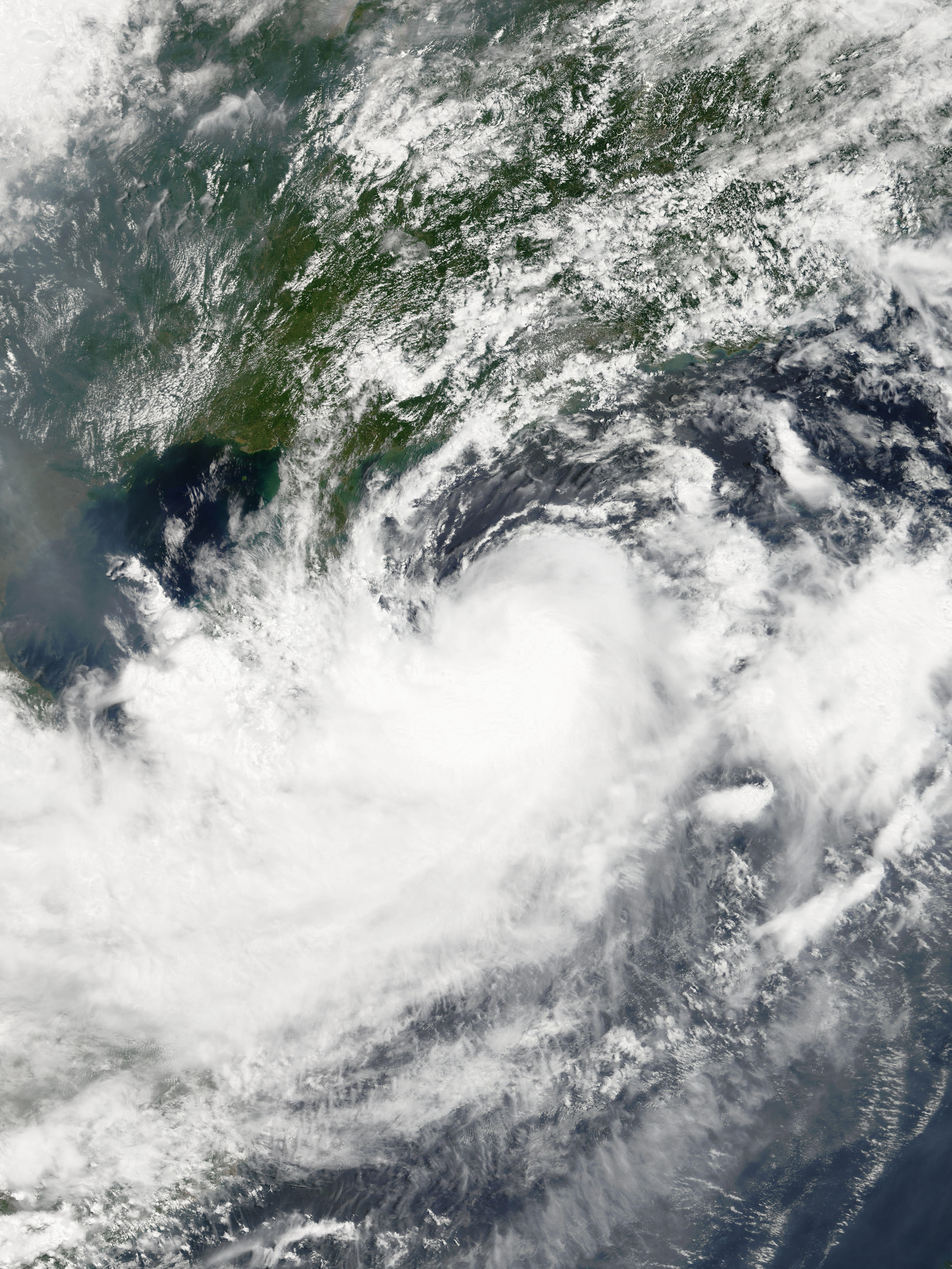 Tropical Storm Talim on June 18, 2012.